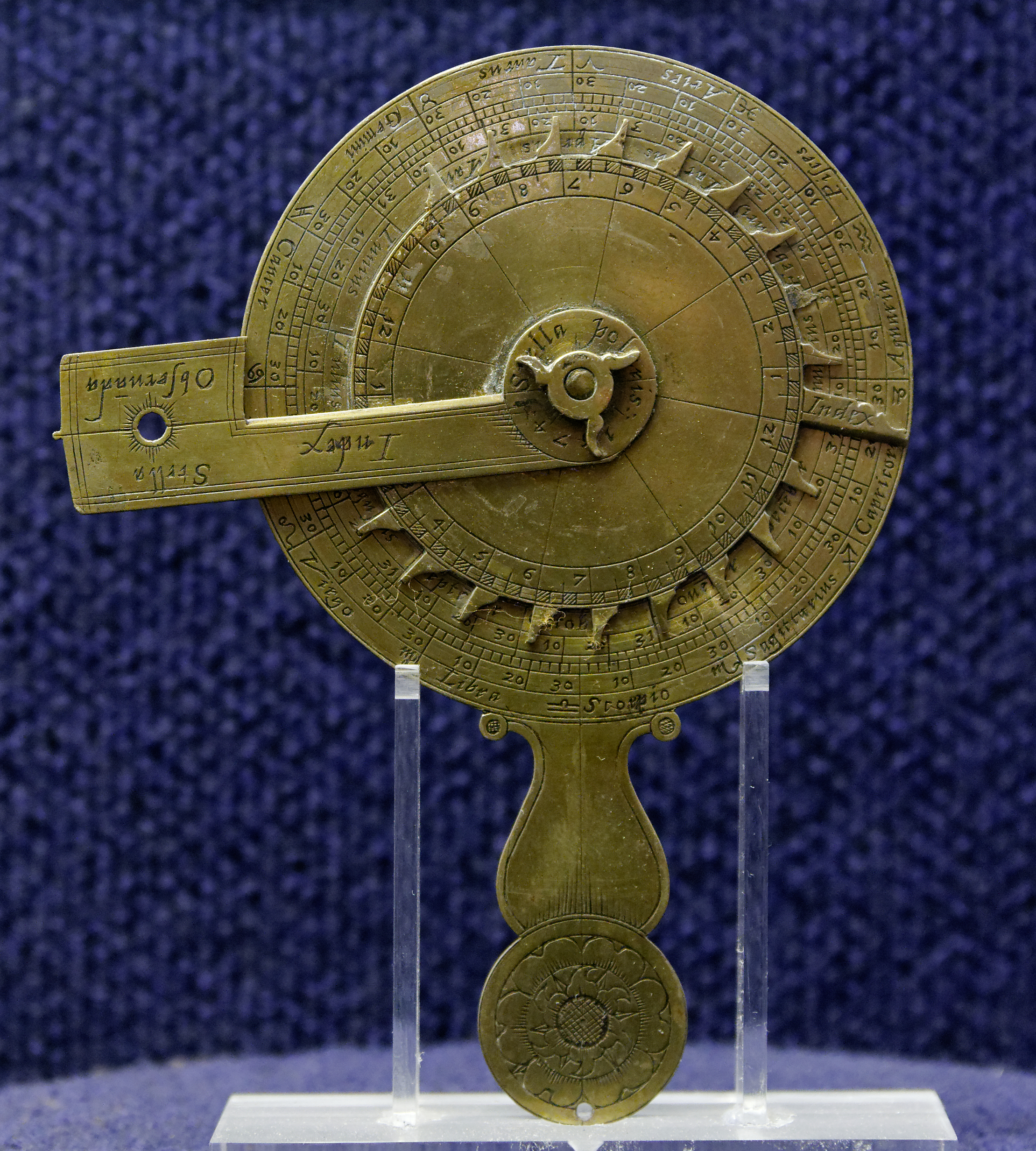 Nocturnal.